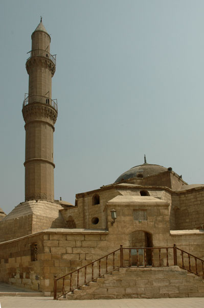 Sulayman Pasha Mosque. Citadel. Cairo. Egypt